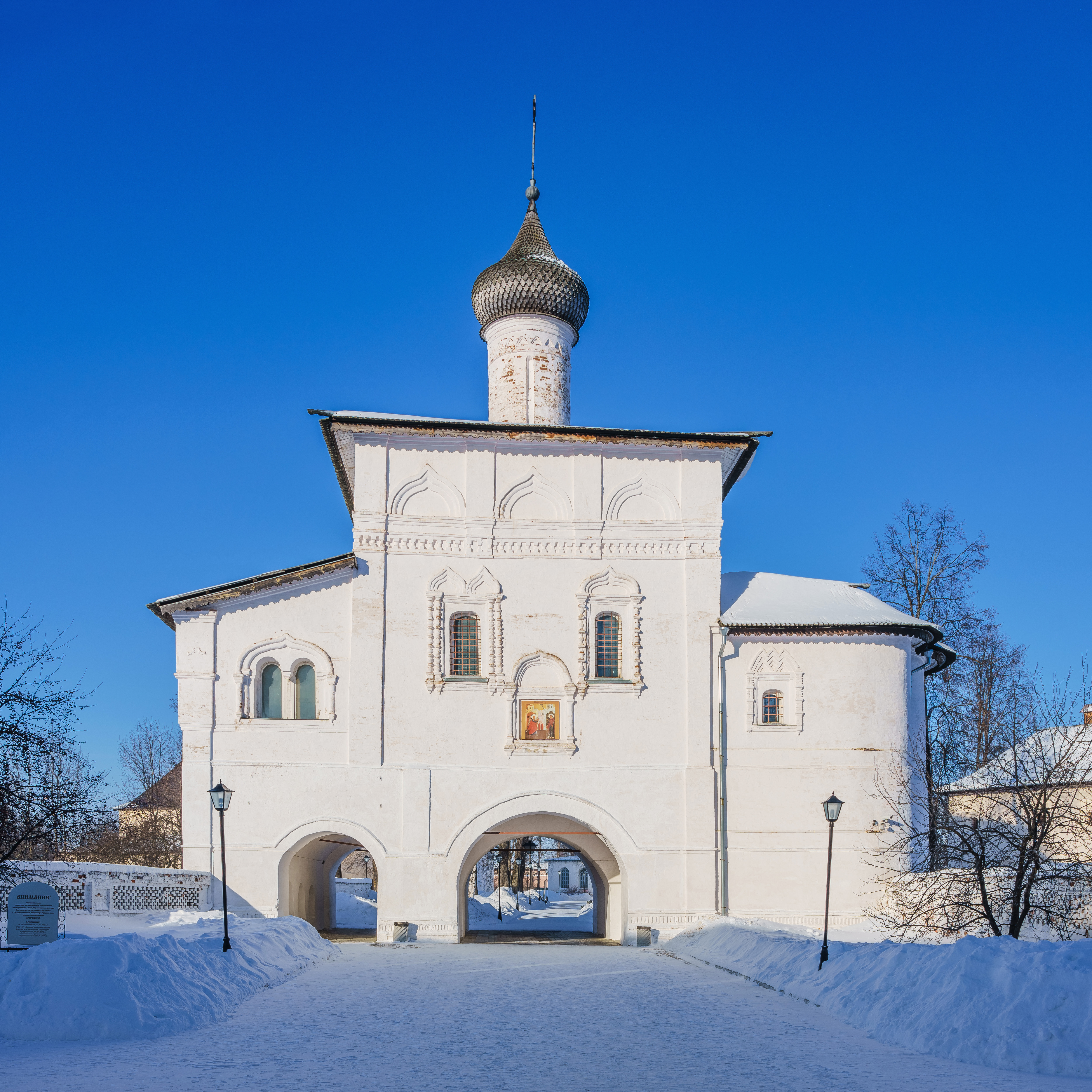 Annunciation Church in Spaso-Evfimiev Monastery in Suzdal, Russia